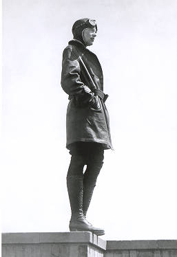 photo of Amelia Earhart in black and white taken in the 1930s